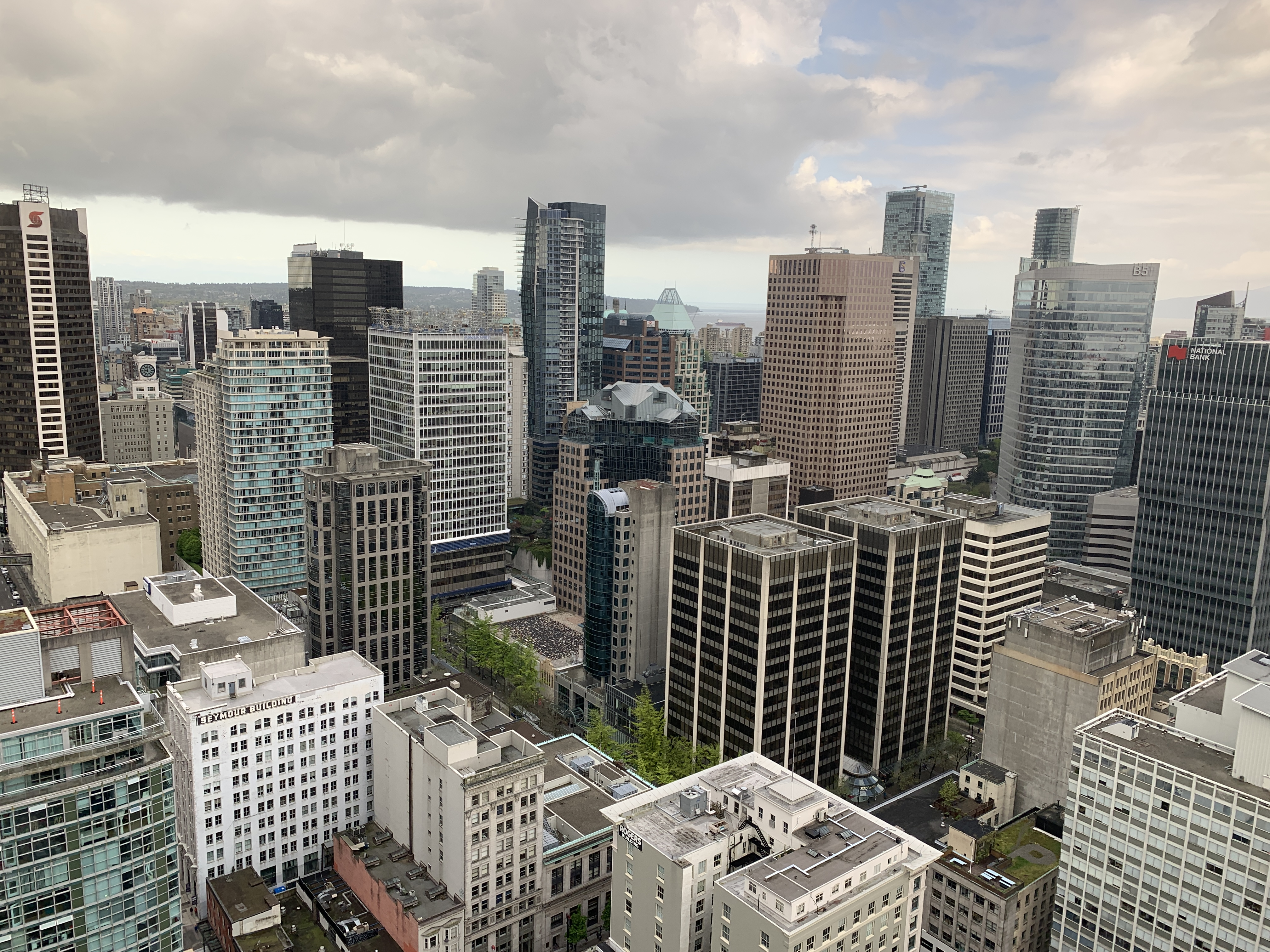 Downtown Vancouver from Harbour Centre May 2019